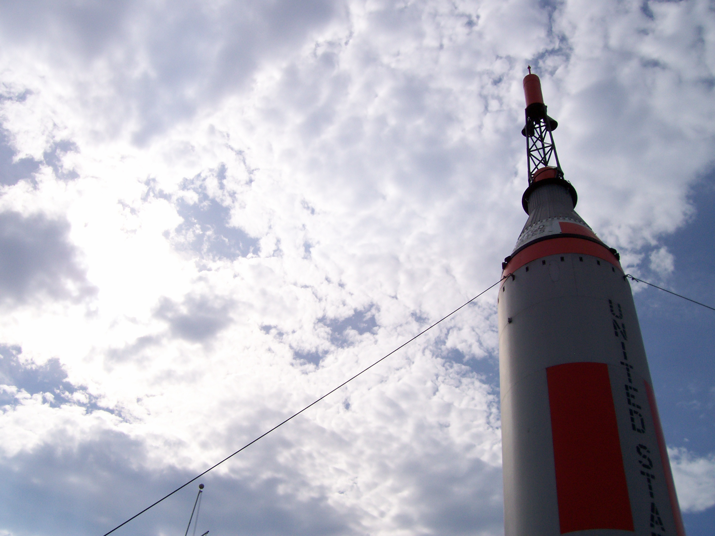 Photo of rocket at Air Power Park in Hampton, Virginia.